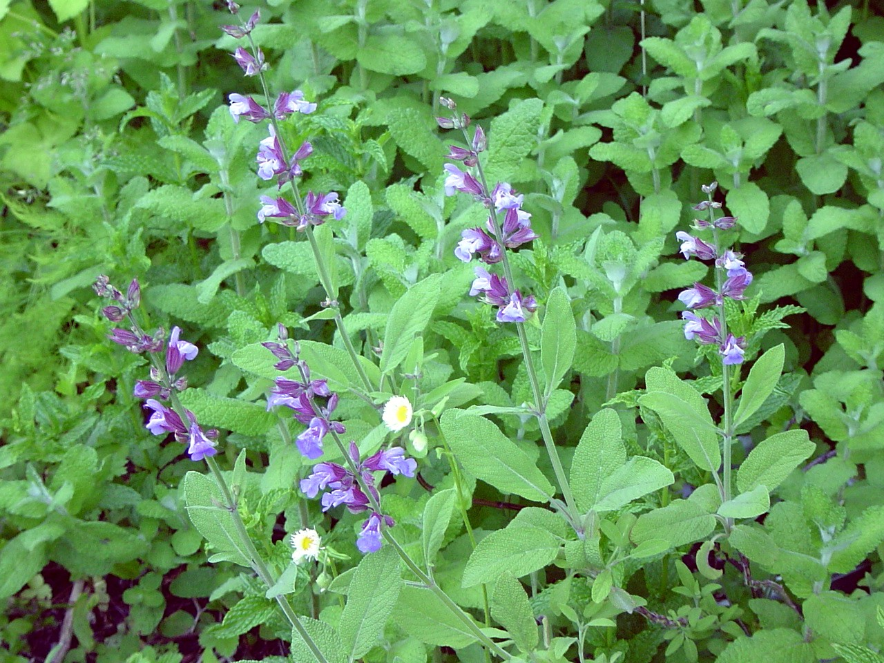 Common sage Herb（Aomori.Japan）